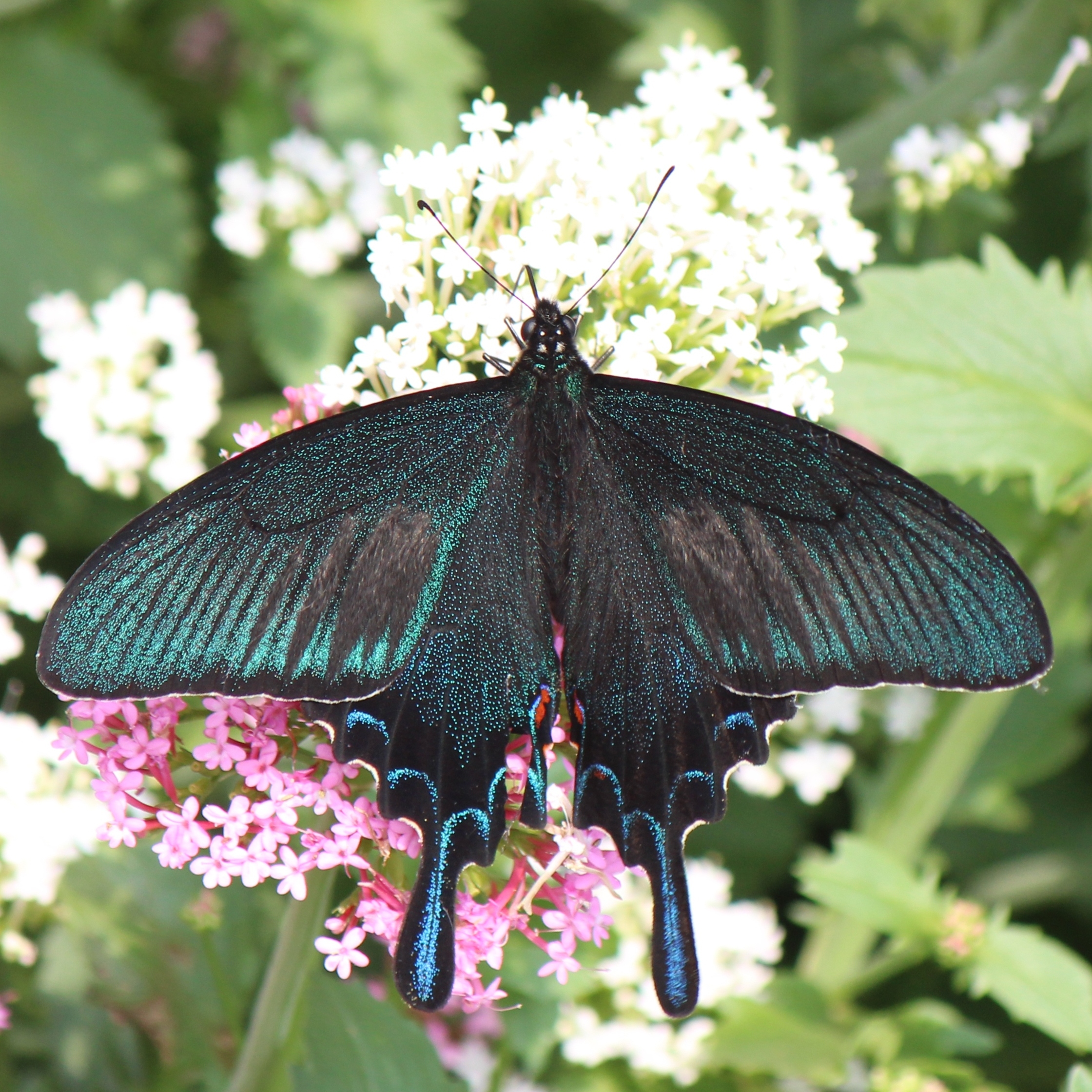 Papilio bianor dehaanii (Chinese peacock) male on flower, Inabe, Mie, Japan.